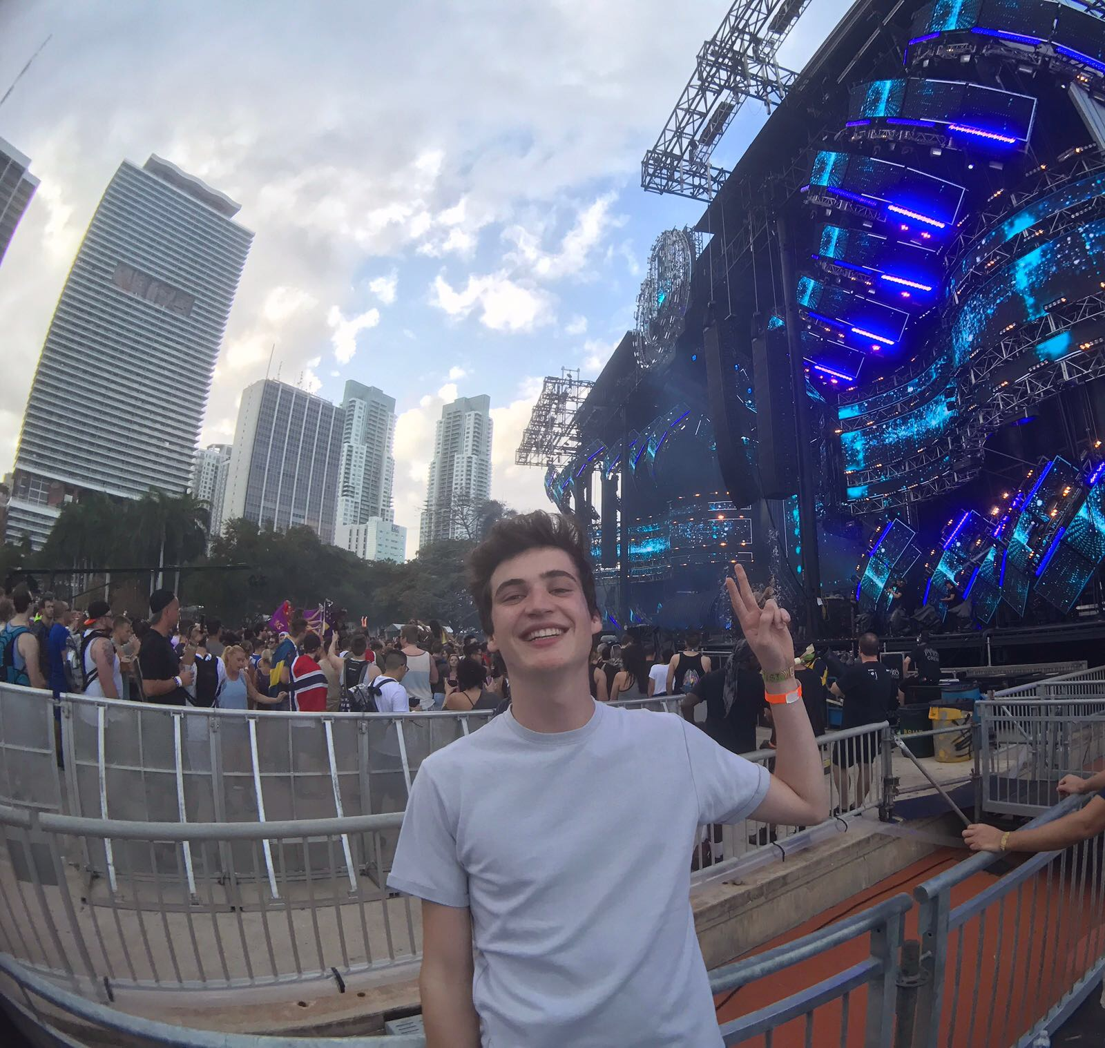 Henri PFR at Ultra Music Festival 2017 in Miami, USA